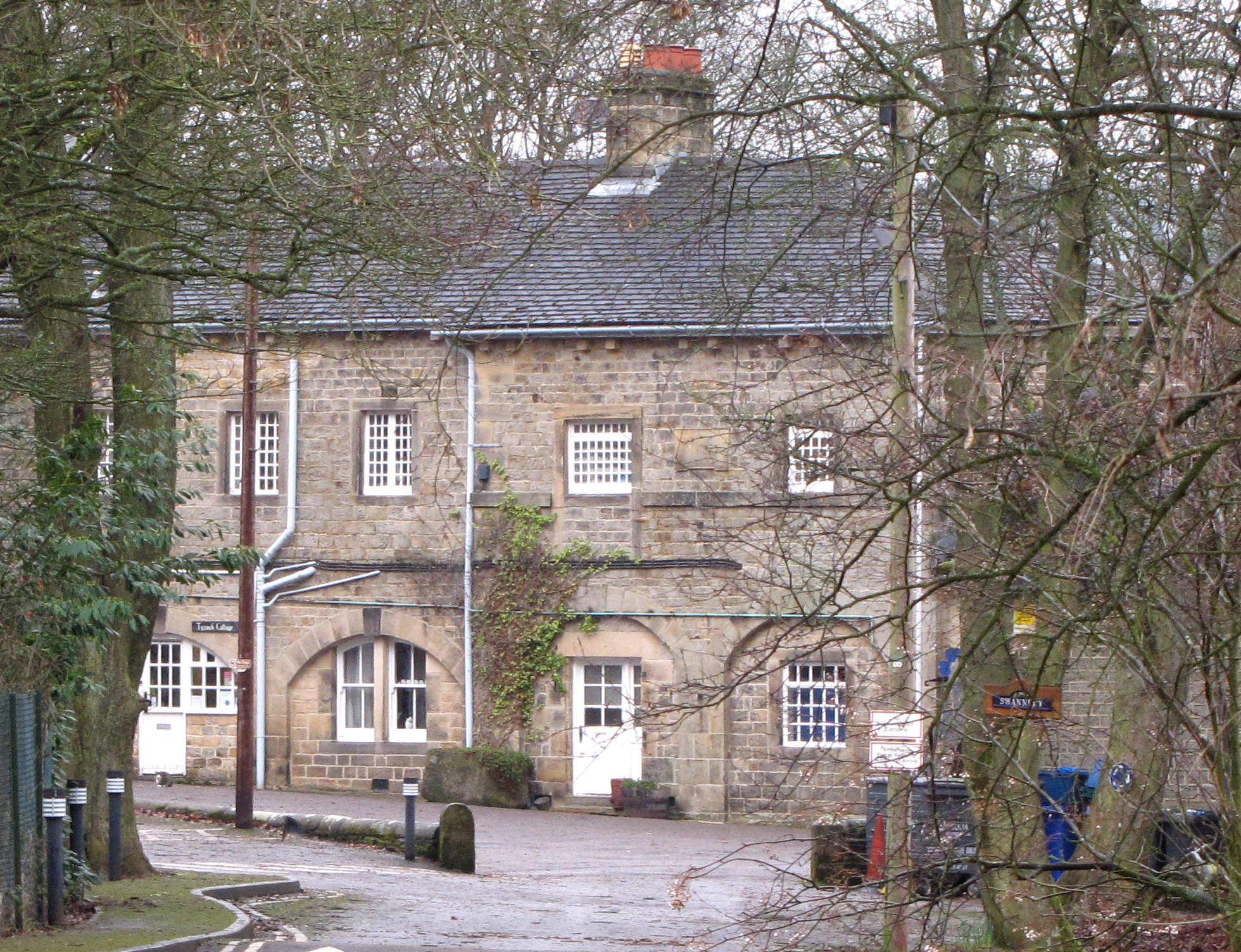 Whiteley Wood Hall stables, off Common Lane in Fulwood, Sheffield, England. These Grade II Listed Buildings are now used the Sheffield Girl Guides Association as an outdoor activity centre. They date from the late 18th century.